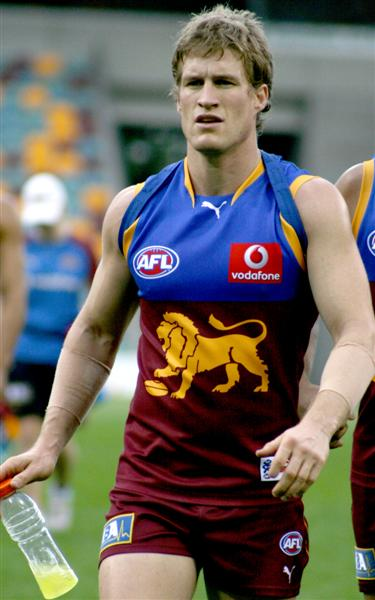 Luke Power at a Brisbane Lions public training session in 2008.